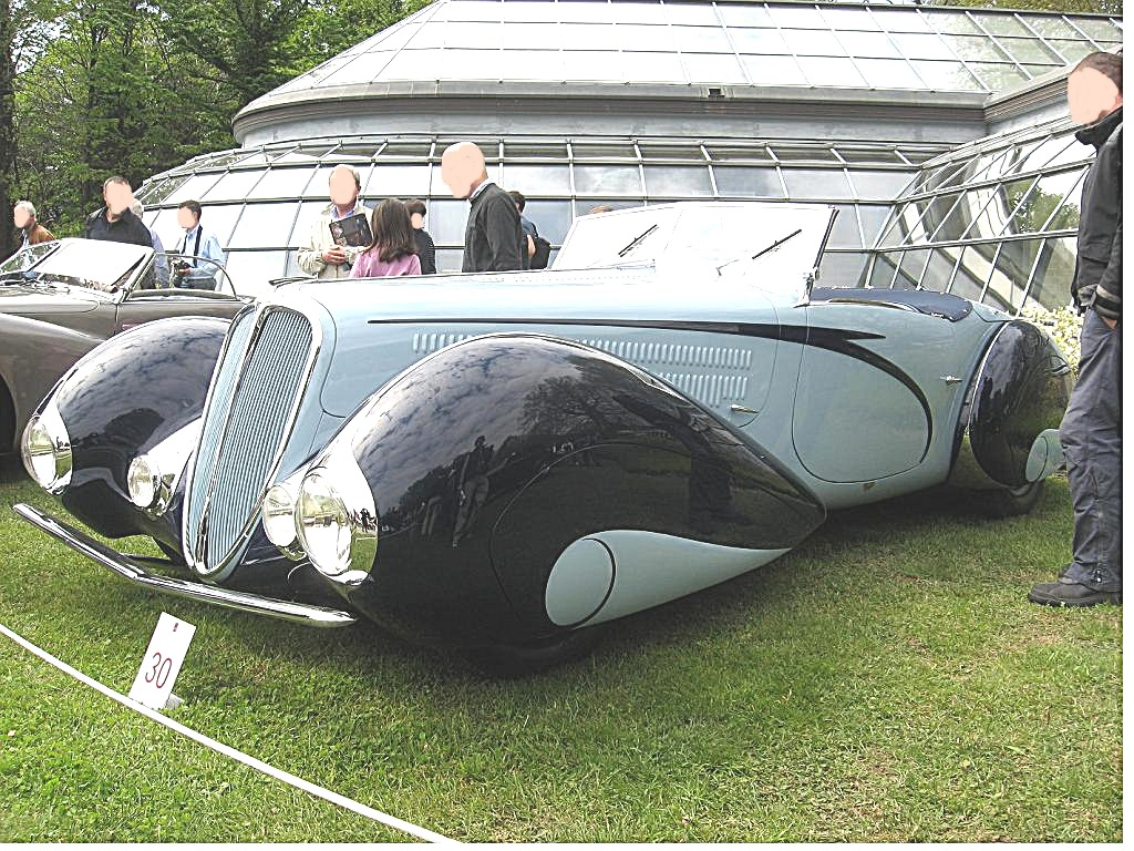 Subject:Delahaye 135M Roadster, bodied by Figoni et Falaschi (1937) Date:April 27th, 2008 Event:Concorso d’Eleganza”Villa d’Este” 2008 Place/Country: Cernobbio (CO), Italy